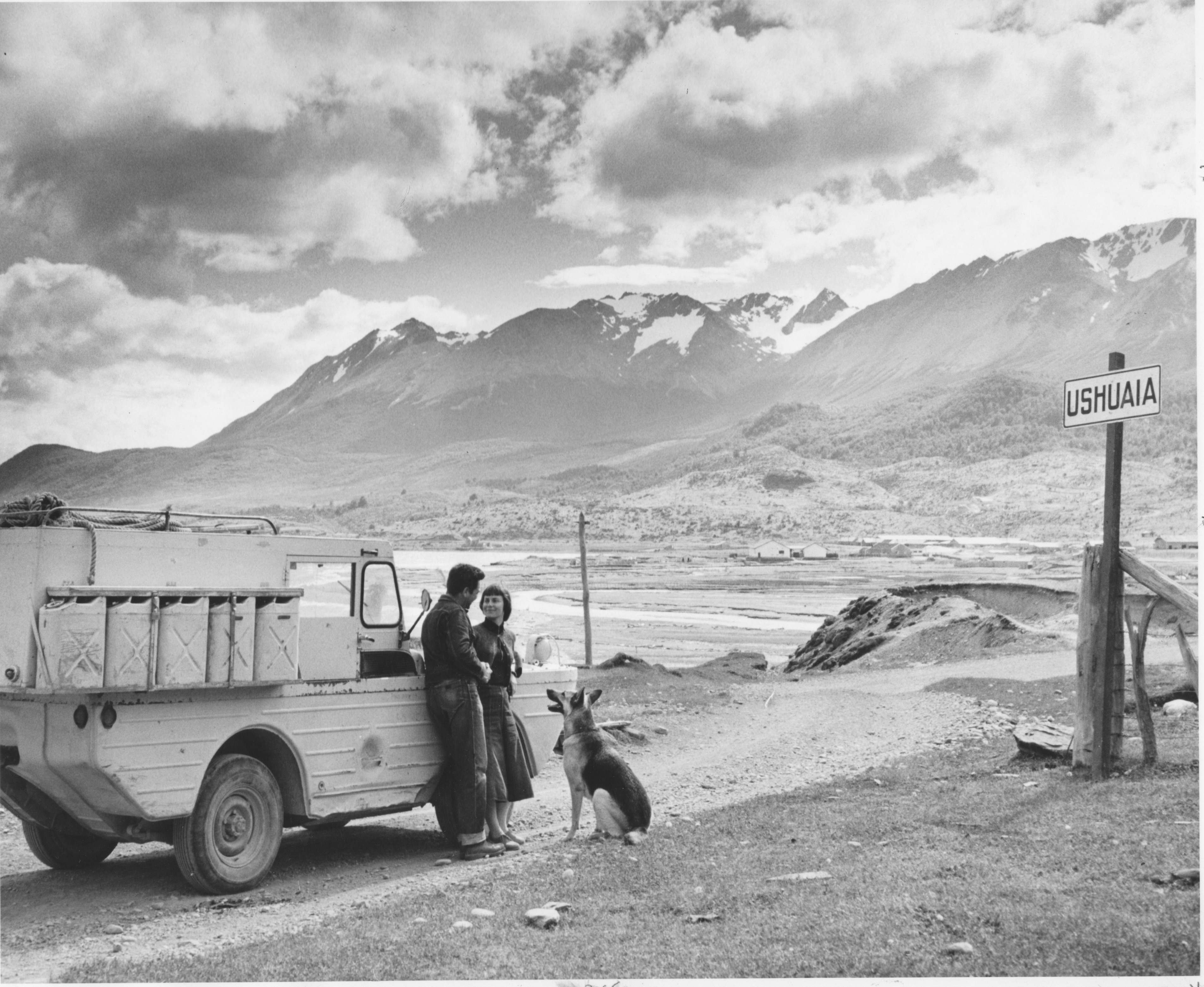 This is Helen Schreider's photo of their arrival at Ushuaia.